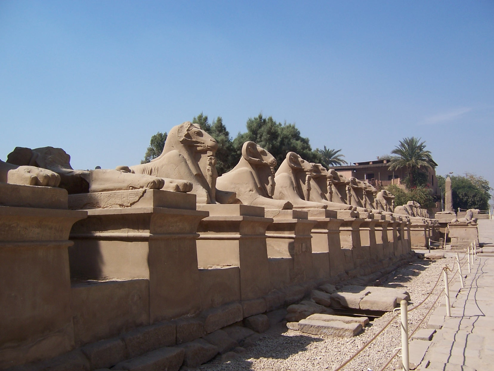 Karnak Temple Complex at Luxor, Egypt